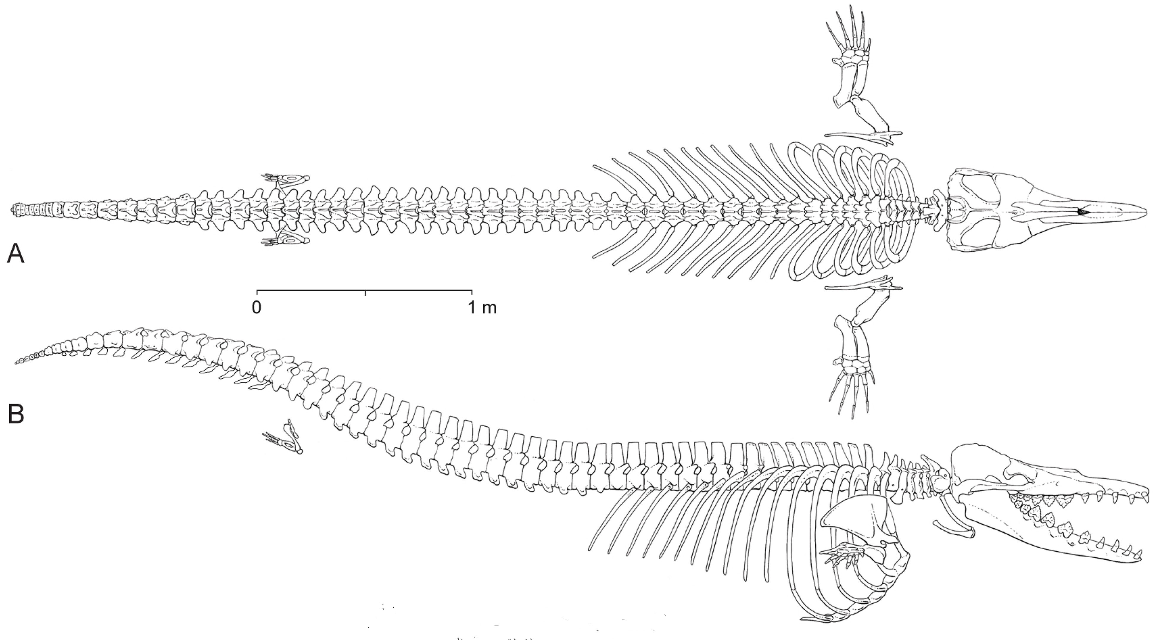 Skeletons of the Eocene archaeocete whale Dorudon atrox. (A, B)– Dorudon atrox (5.0 m; 36.5 Ma) based on UM 101222 and 101215 [11] in lateral and dorsal views, respectively. (C, D).